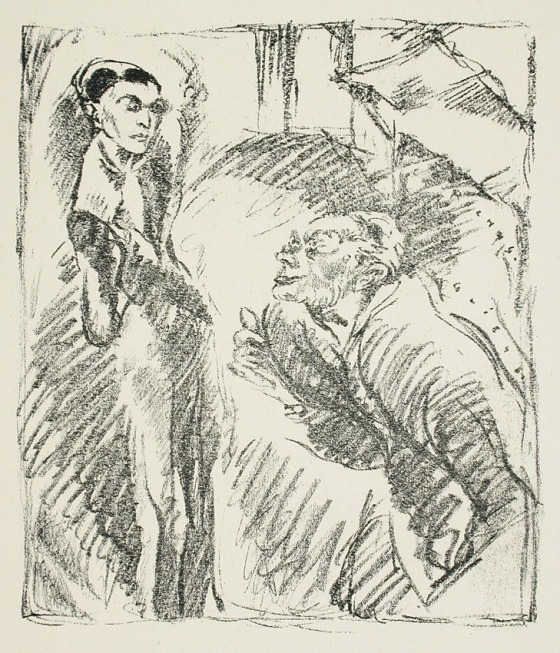 Illustration by Hasenclevers The Son